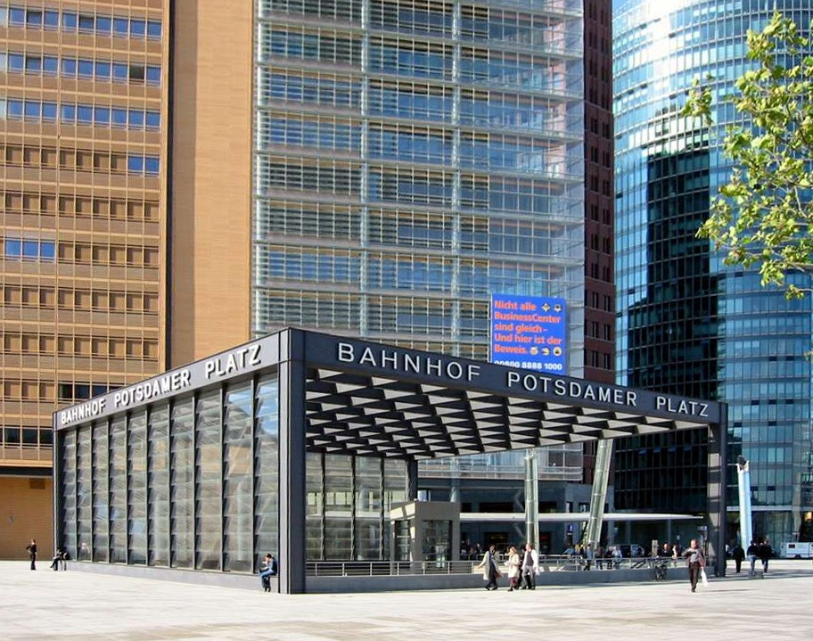 entrance hall of the station Potsdamer Platz in Berlin, Germany